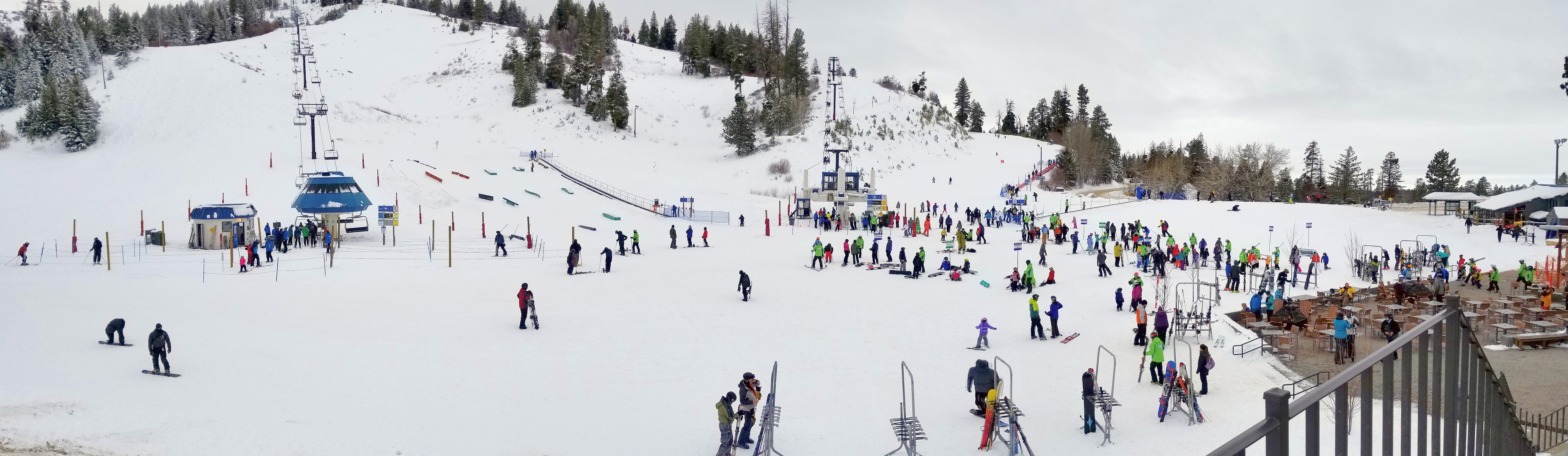 Bogus Basin ski area, Boise County, Idaho. December 27, 2017